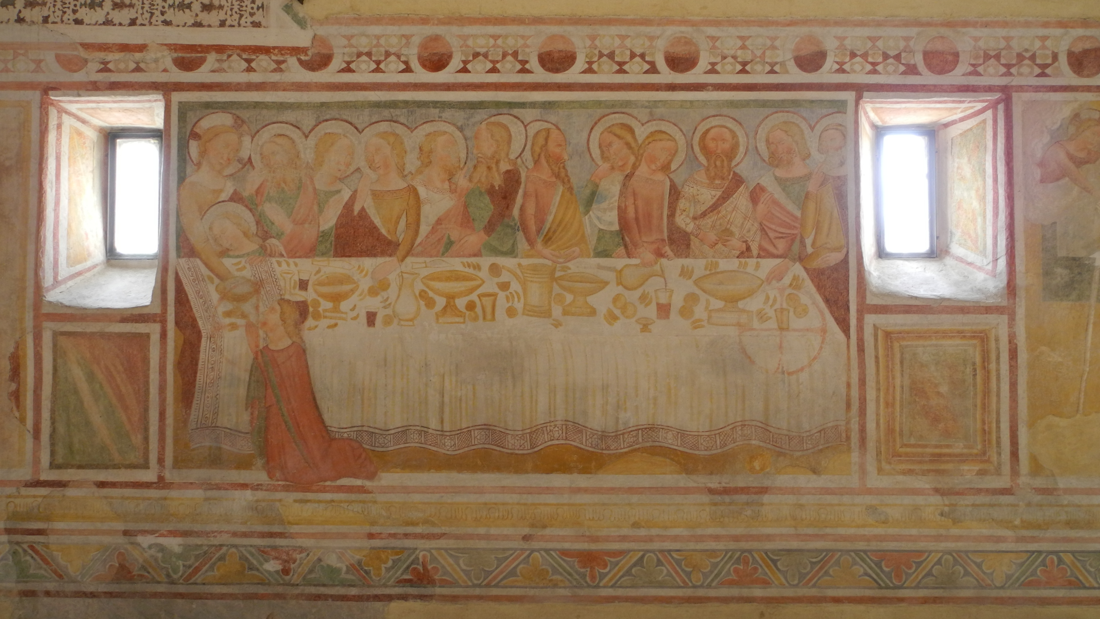 Last Supper of the church of S. Maria dei Battuti, approx 1300, Valeriano of Pinzano al Tagliamento (PN)